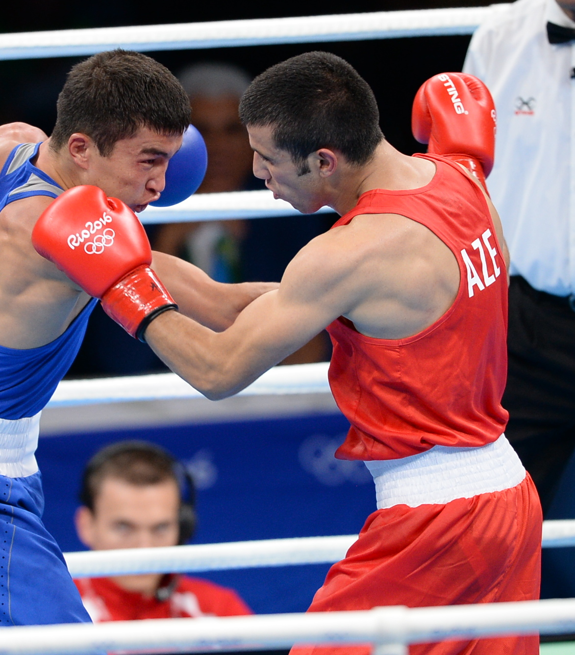 Boxing at the 2016 Summer Olympics, Chalabiyev vs Yeraliyev